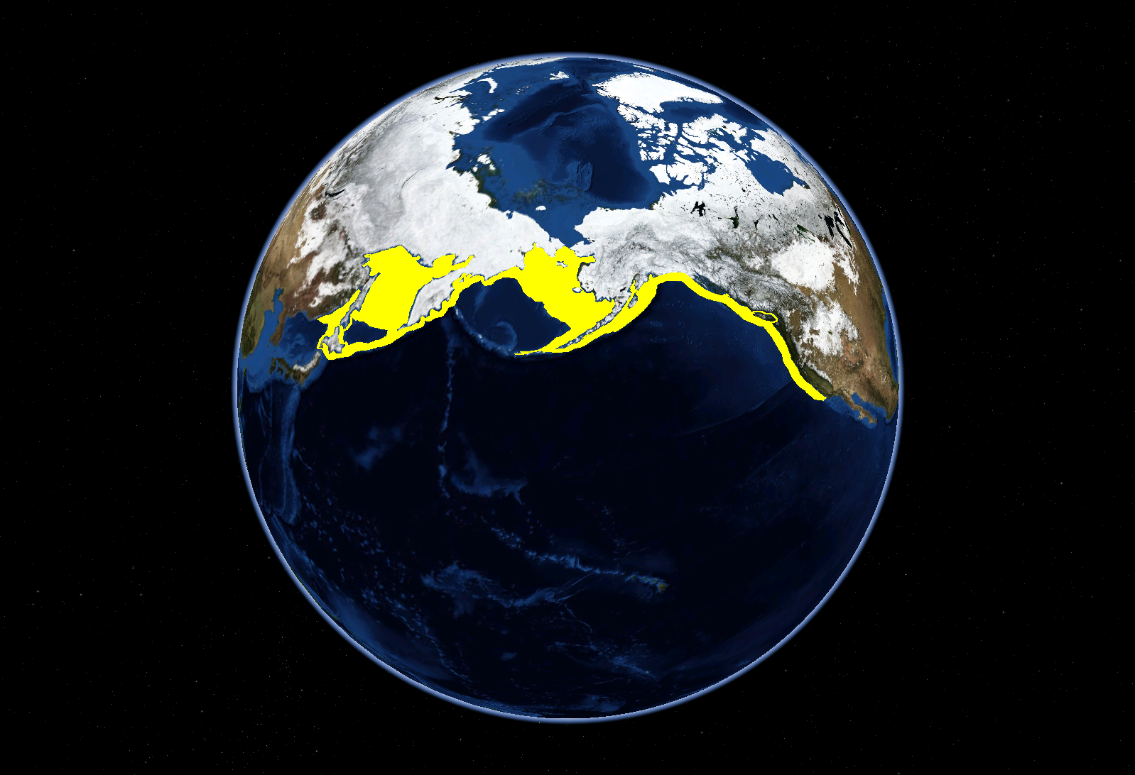 Range of the Pacific Halibut, Hippoglossus stenolepis.